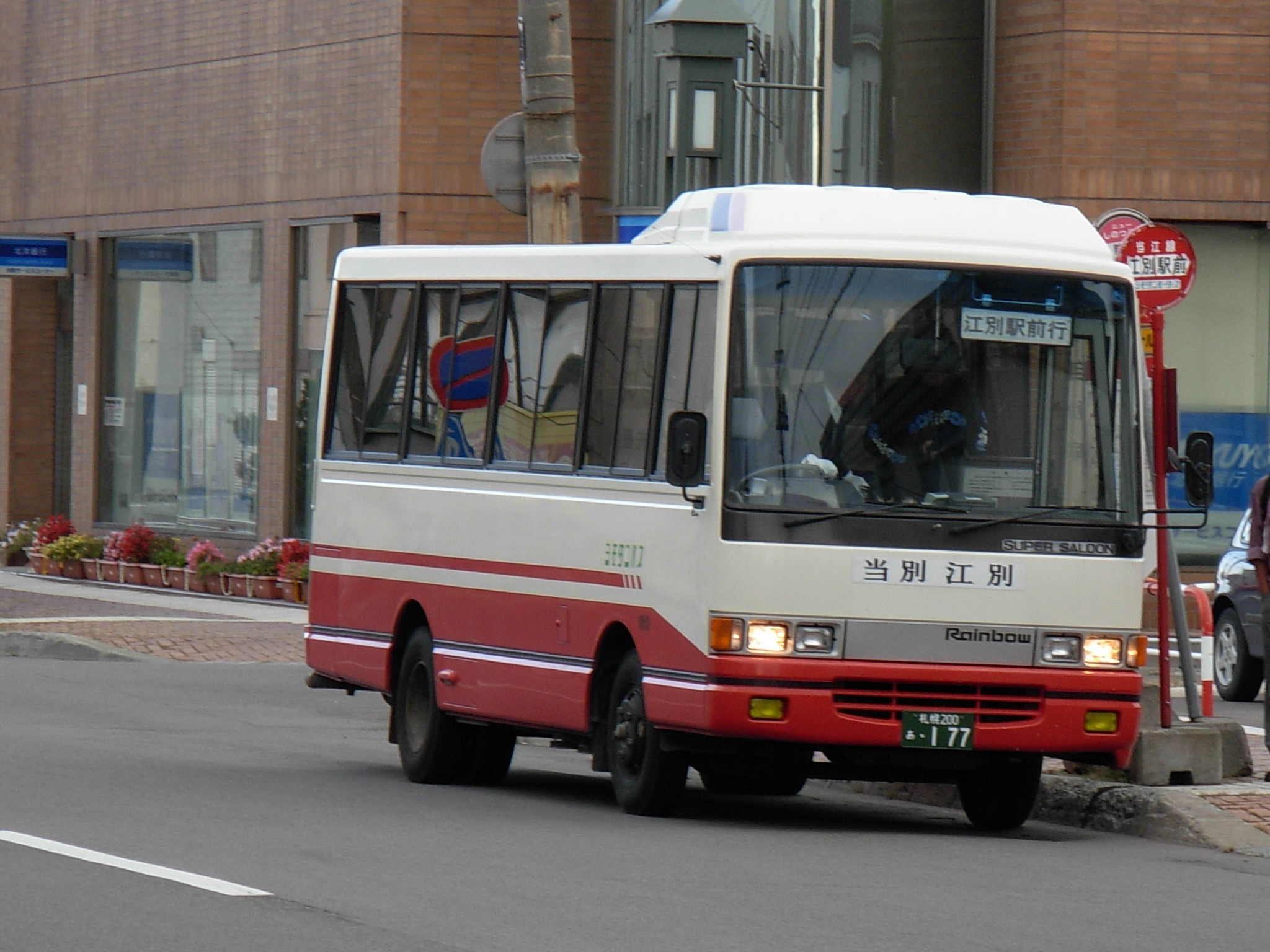 A bus of Shimodan motors Tobetsu-Ebetsu Line at Ebetsu Station 下段モータース当江線のバス車両（江別駅前にて）